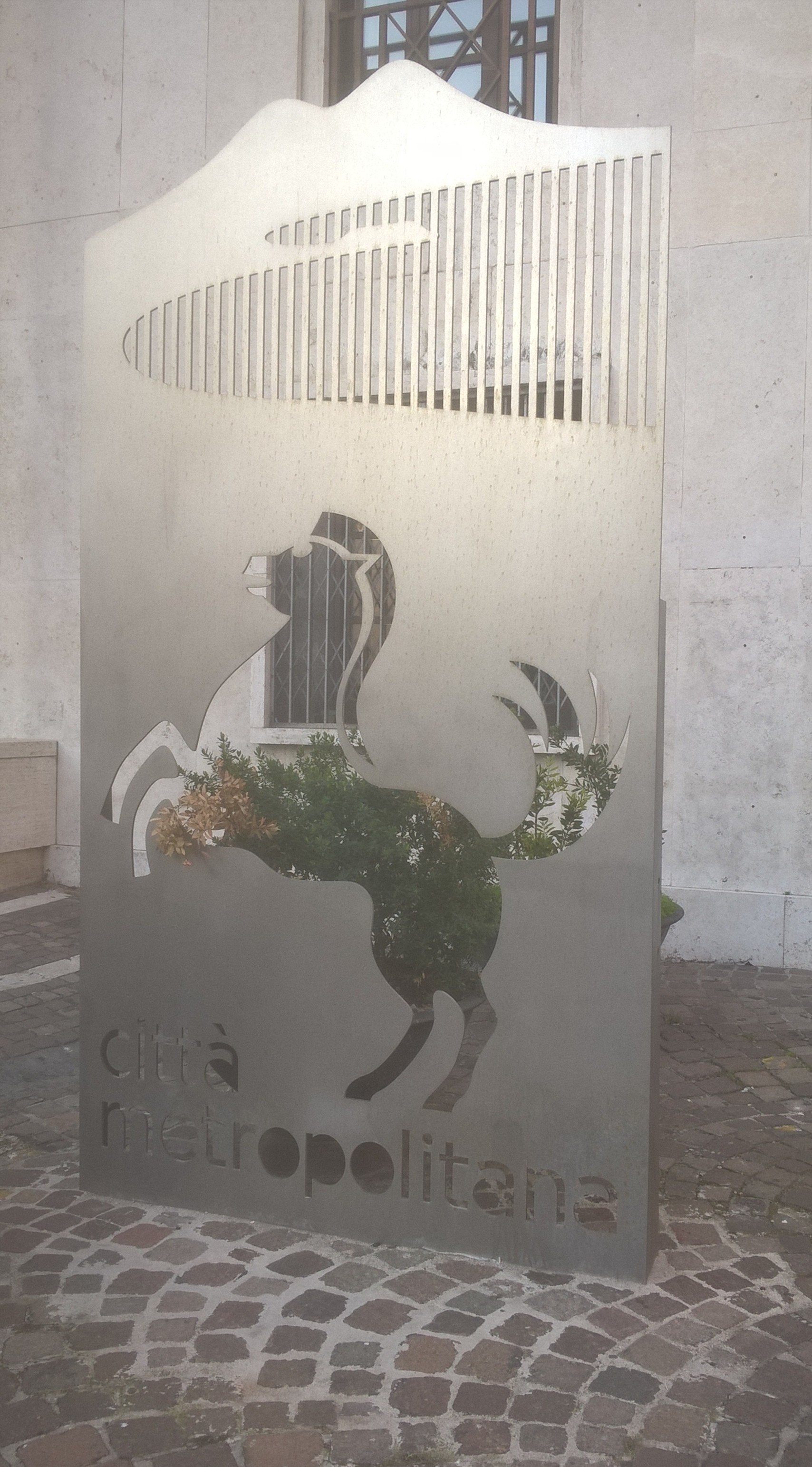 The horse symbol of the Metropolitan City of Naples.